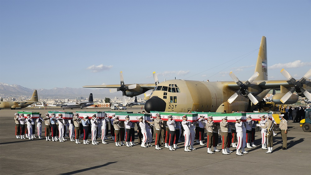 Funeral of Konarak incident victims